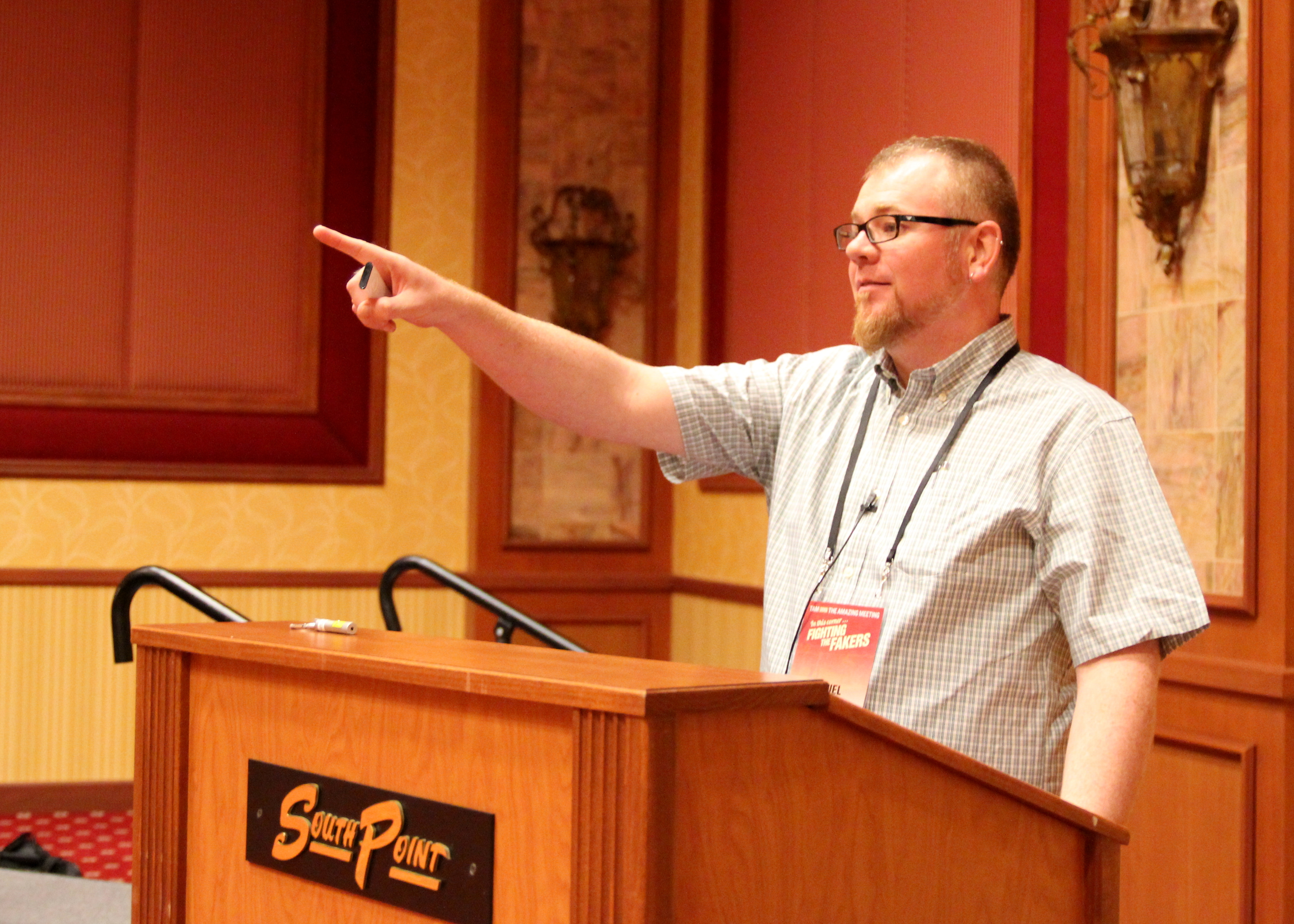 Loxton at podum TAM 2013